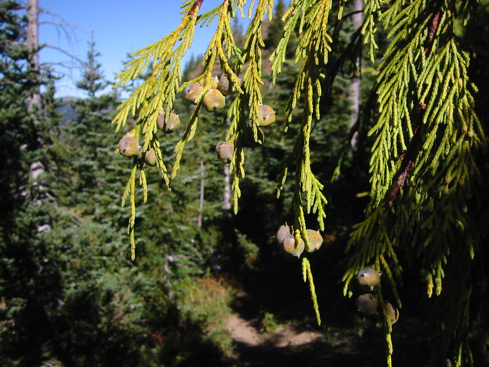 Yellow-cedar cones and foliage. Behind are Subalpine Fir trees.